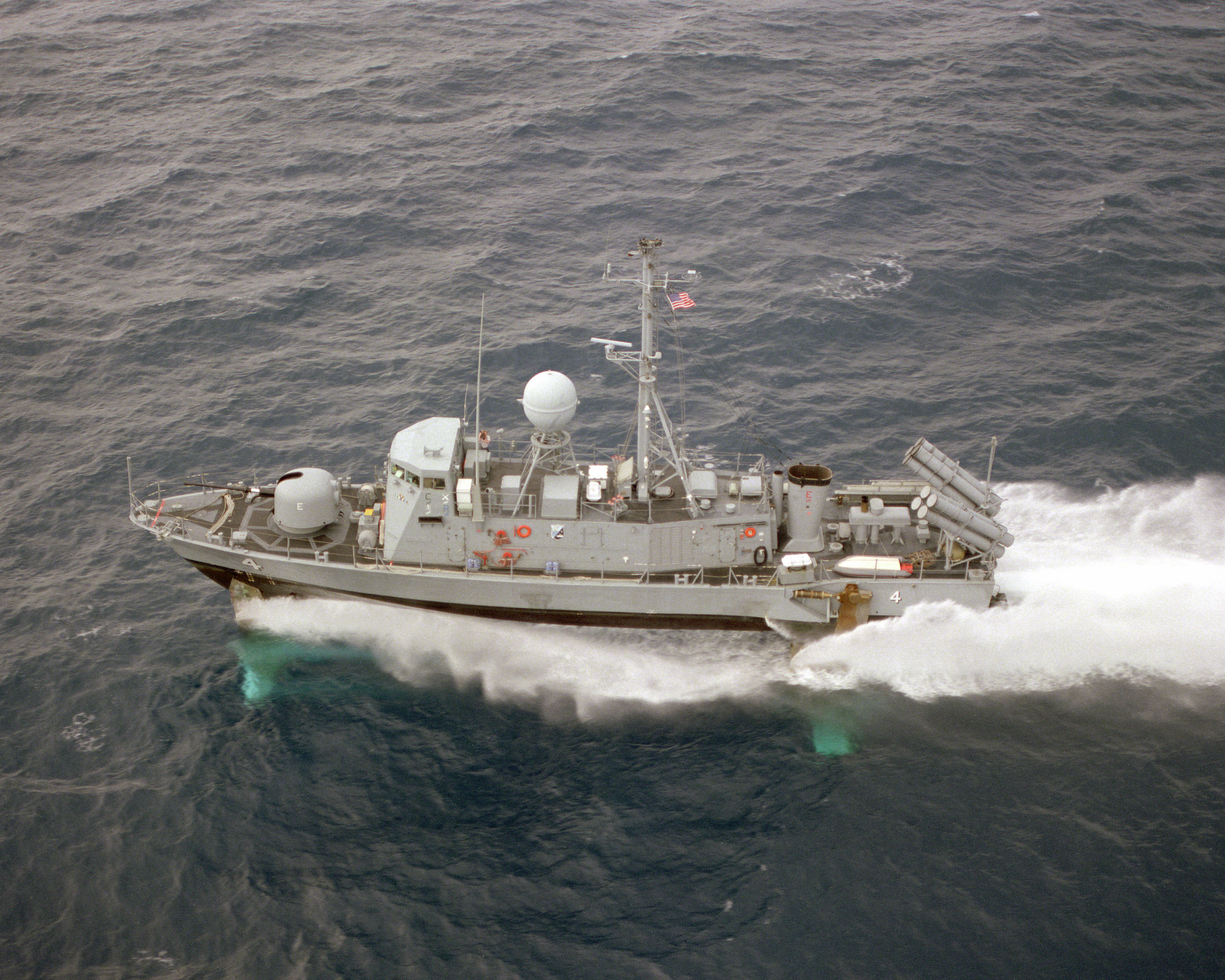 An aerial port beam view of the patrol combatant-missile (hydrofoil) USS Aquila (PHM-4) underway during high-speed maneuvers in the Gulf of Mexico.